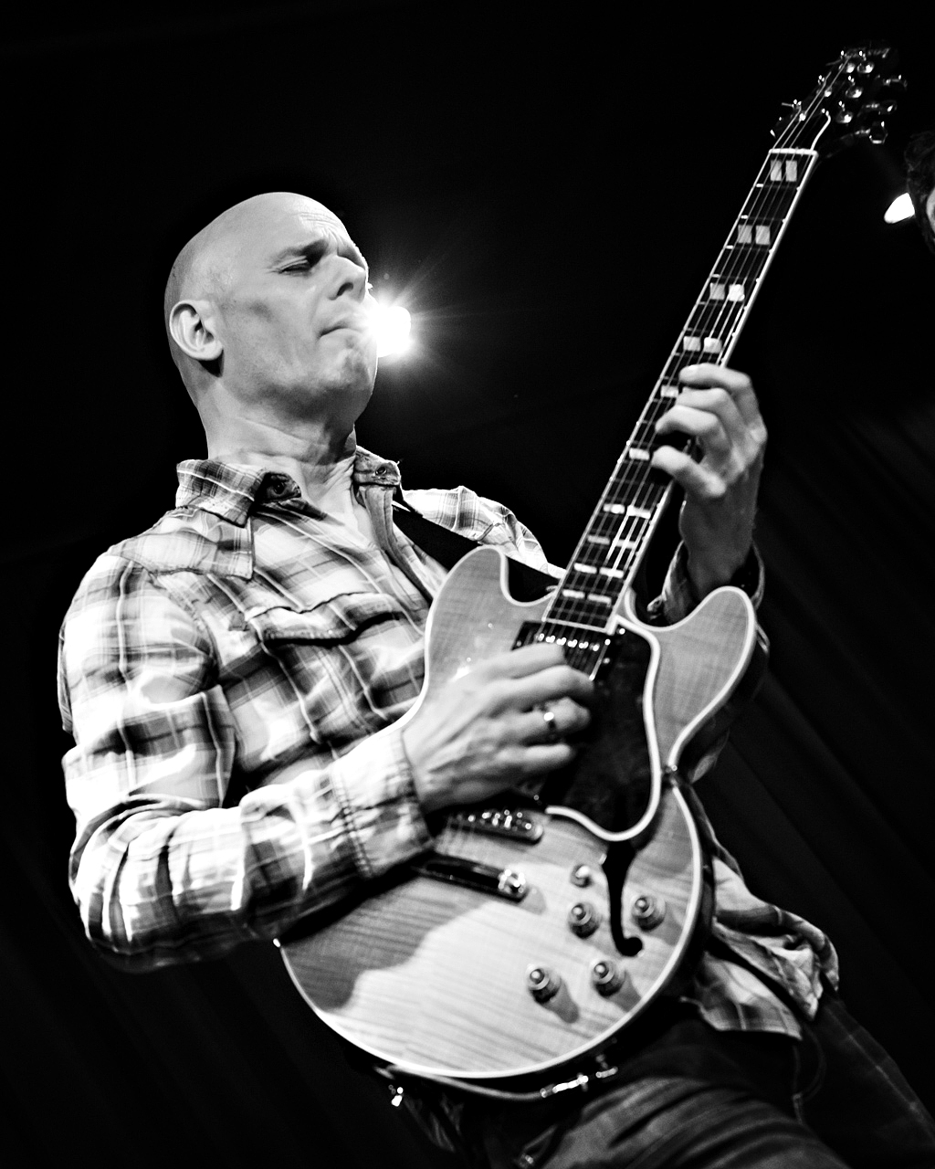 Søren Reif performing at Café Smedjen in Hillerød